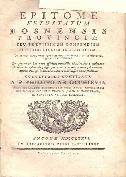 Front page of Epitome vetustatum Bosnensis provinciae (Pregled starina Bosanske provincije).